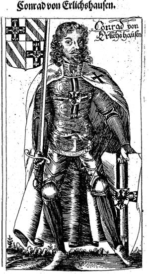 Konrad von Erlichshausen (died 7 November 1449) was the 30th Grand Master of the Teutonic Knights, serving from 1441 to 1449.